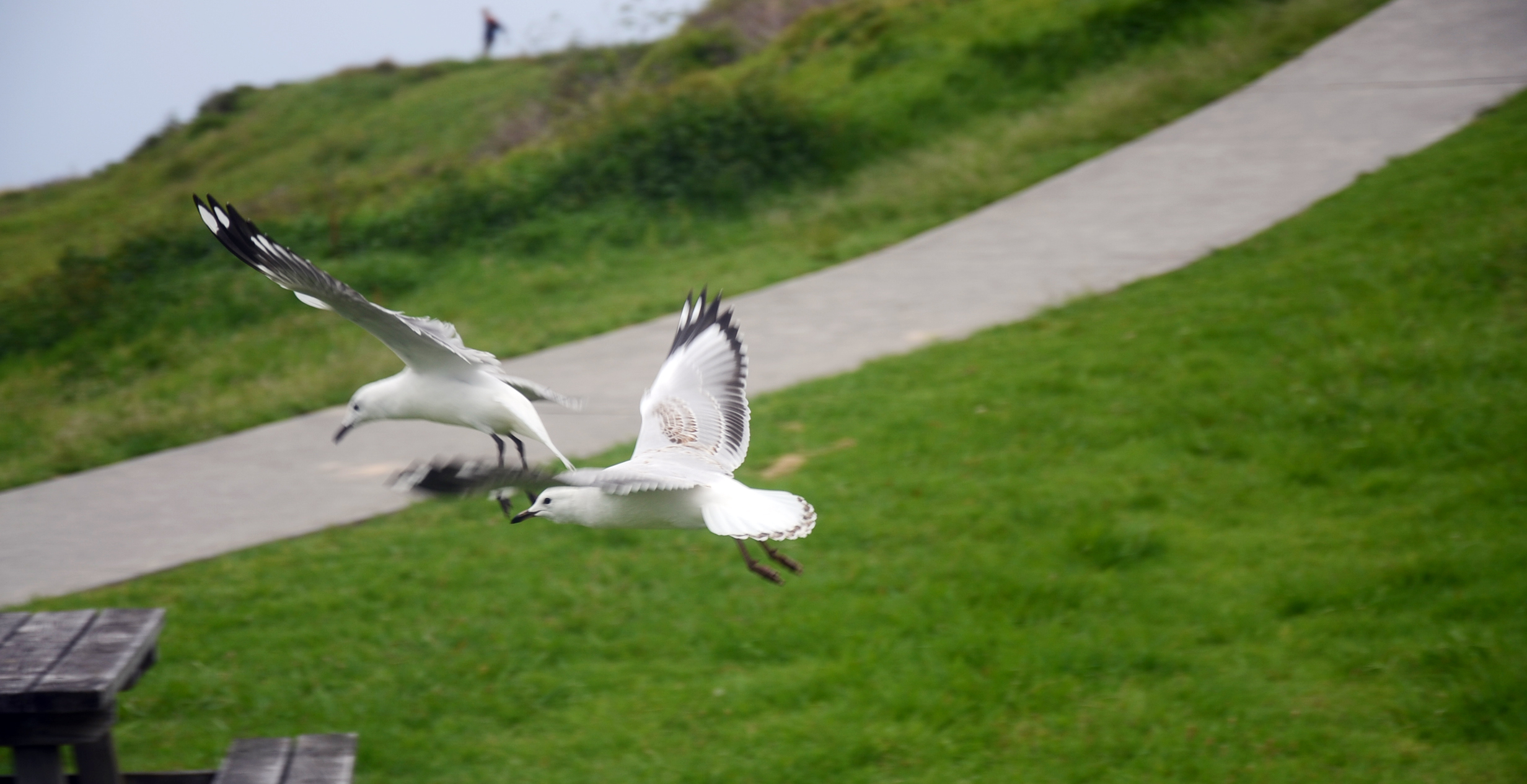 Flying subadult Silver Gulls, Chroicocephalus novaehollandiae at Kiama beach during Christmas, Sydney 2013